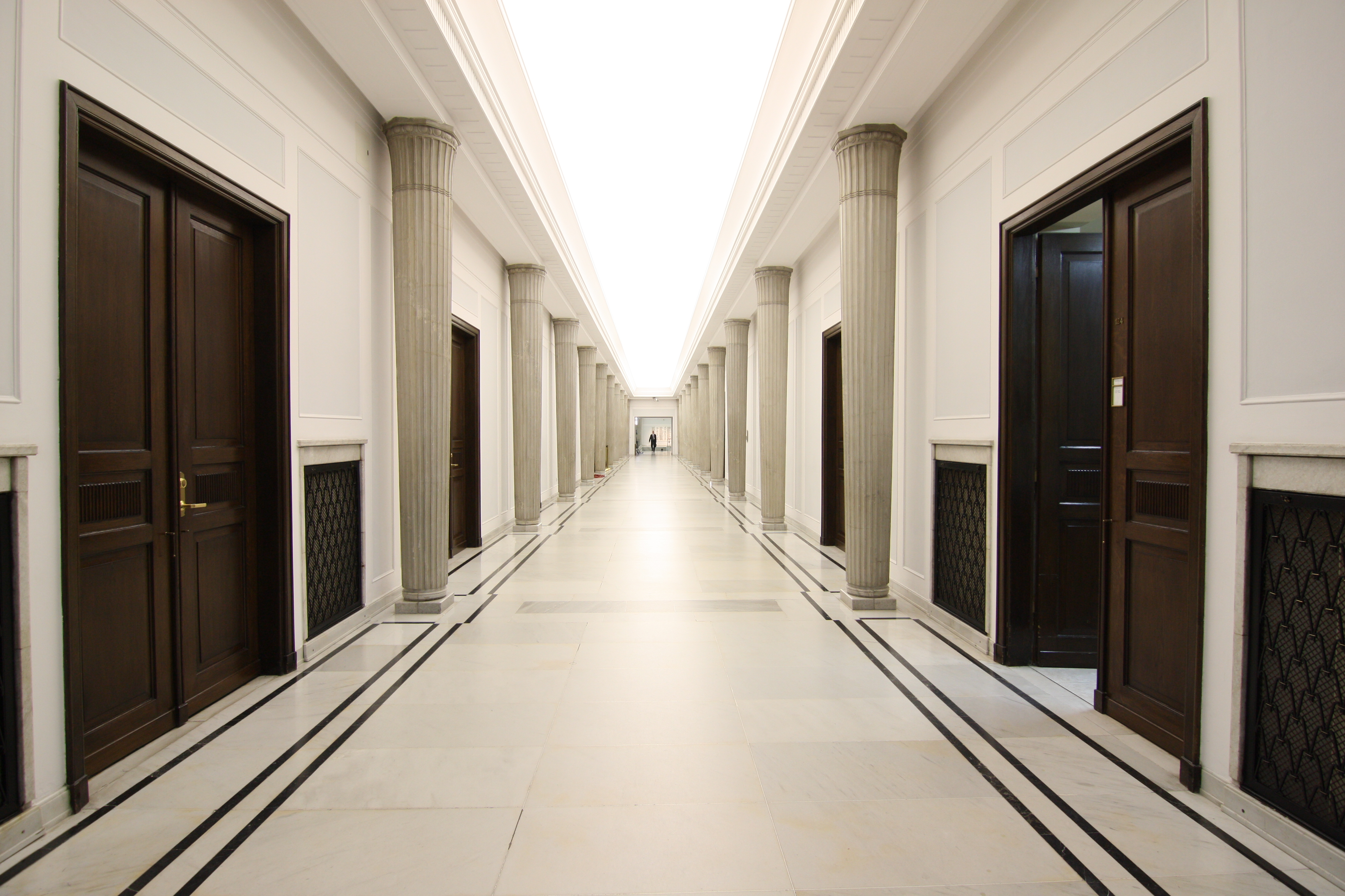 Polish Parliament, corridor